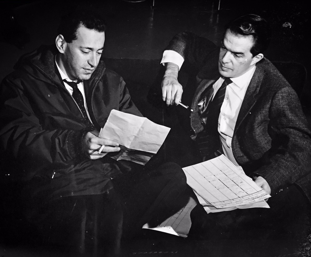 Steve Hopkins (left) and Bo Bjelfvenstam (right), going through the manuscript during the filming of The Face of Sweden movie series (1962).